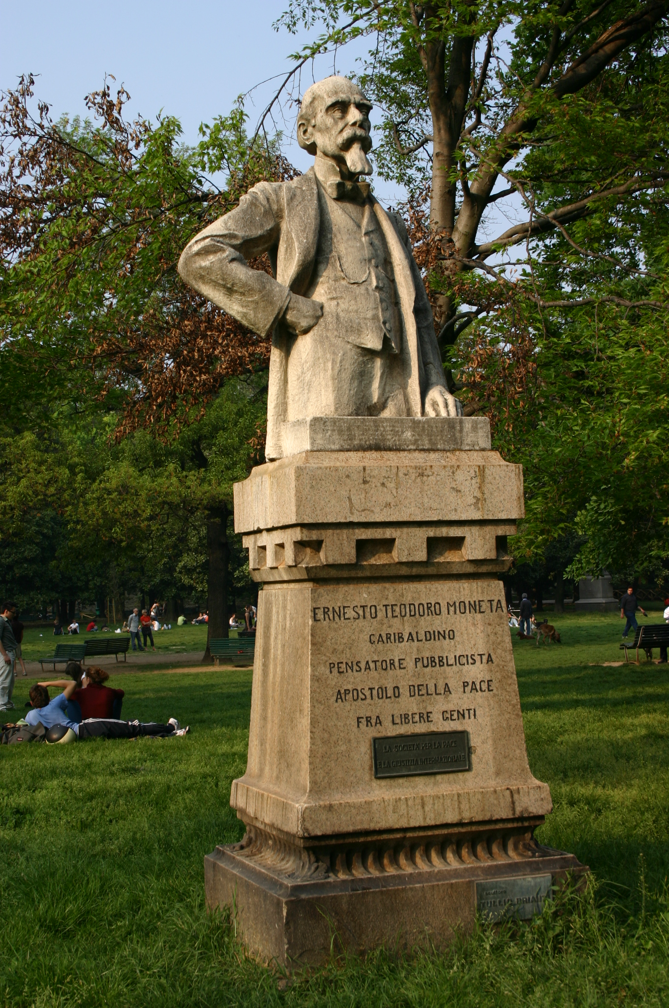 Tullio Brianzi (19th-20th century), Monument to the journalist and Nobel Peace Prize winner, Ernesto Teodoro Moneta (1924) in the "Giardini pubblici di Porta Venezia" gardens, in Milan, Italy. The monument was removed during the Fascist period, and put back in 1945. Picture by Giovanni Dall'Orto, April 22 2007.